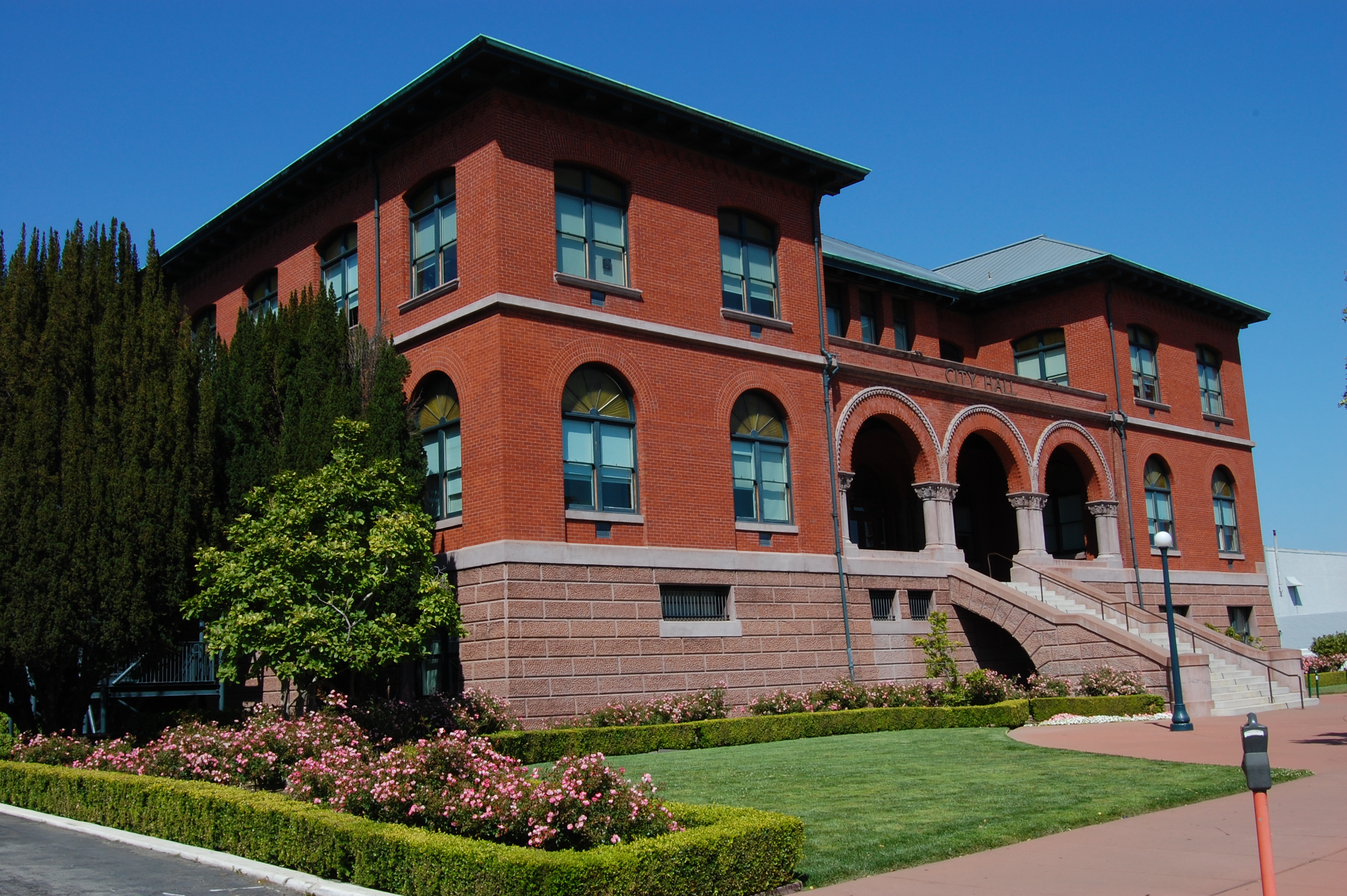 City hall. 2263 Santa Clara Avenue. Alameda, California, USA